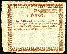 Promissory note issued by Luis Vernet to employees working for him in his settlement at Port Louis (Puerto Luis) in the Falkland Islands. Copyright has expired.